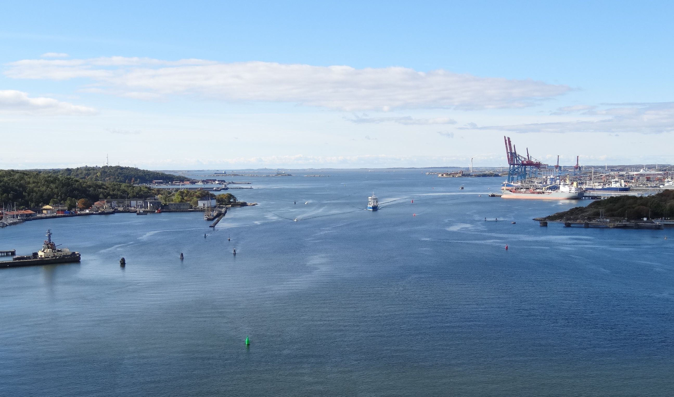 Part of Gothenburg harbour seen from the Älvsborgbridge